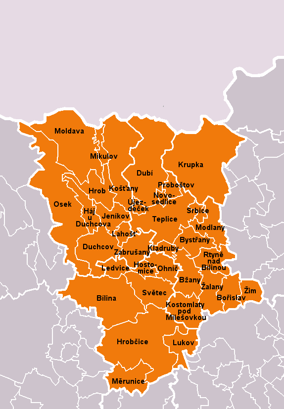 Municipalities of Teplice District as of January 1, 2010 (34 municipalities in total). White lines of variable thickness show boundaries of municipalities, administrative areas, districts, regions and nations.